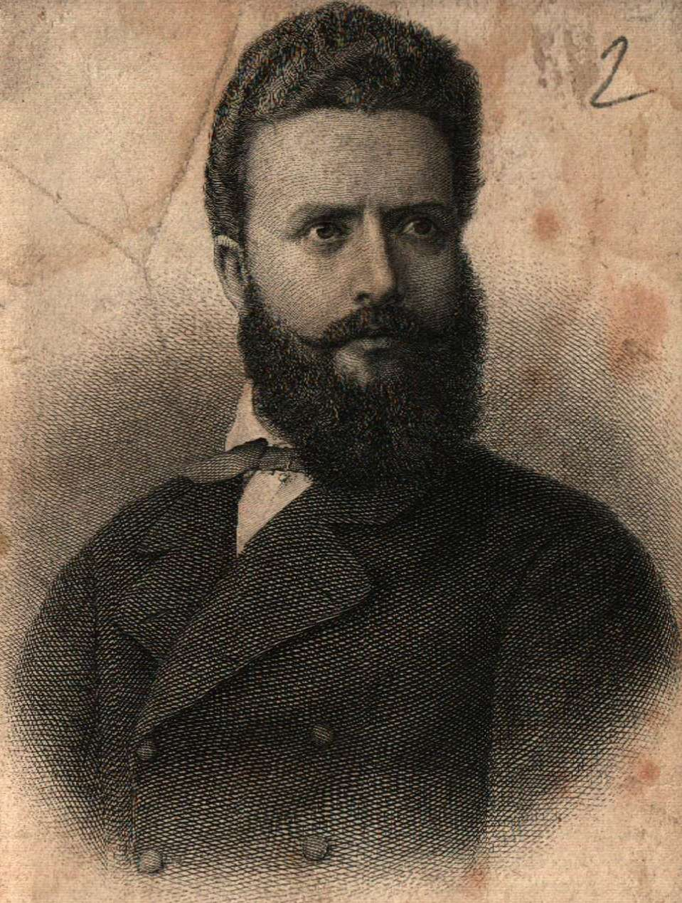 Hristo Botev